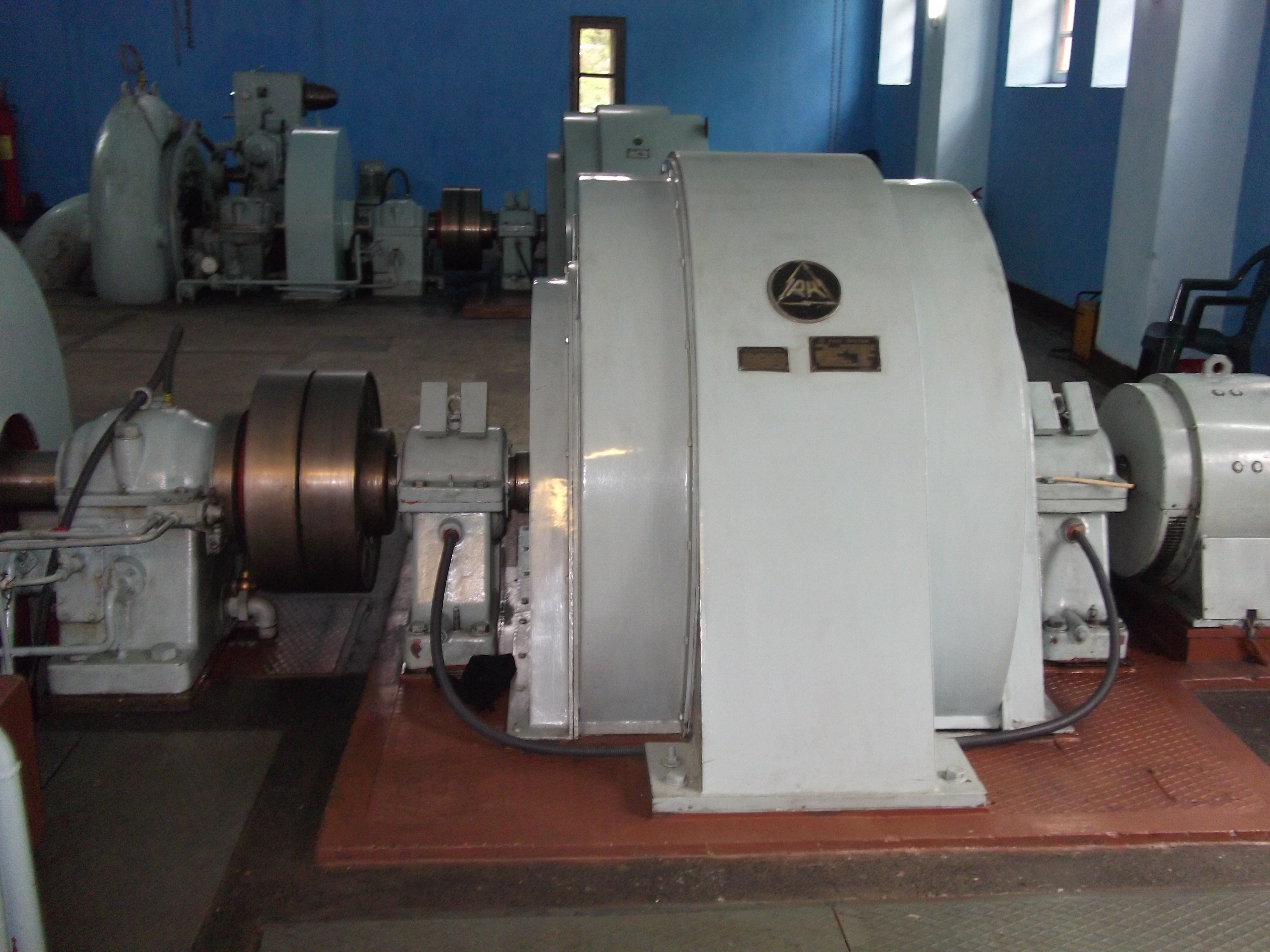 Hidrocentrali I Dikances – Dragash Kosove Hidrocentrali I dikances eshte I ndertuar ne vitn 1957 ne mallet e sharrit ne nje larsi mbidetare afo 1500m. ky hidrocentral ka qen ne funkcion deri ne vitin 2001 dhe ishte ne pronsi te korporates energjetike te kosoves. Pase nje ndrprerje afro 9 vjeqare hidrocentrali kthehet ne pune ne pronsi te Frigo Food Energy Invest. nga janri I vitit 2010. Gjendja e tanishme: Hidrocentrali punon me dy gjenerator me kapacitet maksimal prej 950 kWh energji elektrike, ne nje periudh 10 mujore, ndersa ne perioden e thatesirave zvoglon kapacitetin e prodhimit. Gjeneratoret jane te prodhuesit Rade Konqar prodhim I vitit 1975, ndersa rregullatori I rrymes I llojit Litostroj. Sistemi I furnizimit me uje behet nga lumi I Brodit me nje kanal te ndertuar me nje gjatesi 925m dhe me nje rezervuar akumulues me diameter 7,0 m dhe thellesi prej 7,0m (kapacitet 270 m3). Ramja e ujit nga rezervuari deri ne turbine behet me gyp me diameter prej 70 cm ne nje lartesi prej 115 m. Ne kete hidrocentral per momentin jane te punsuar 9 persona. Gjithashtu ka fillue edhe nderimi I gjeneratorit te tret me nje teknologji me te avancuar dhe me nje kapacitet me te madhe. Personat kontaktue ne vendin e ngjarjes: Nazyf Bojaxhiu dhe Visar Ibrahimi